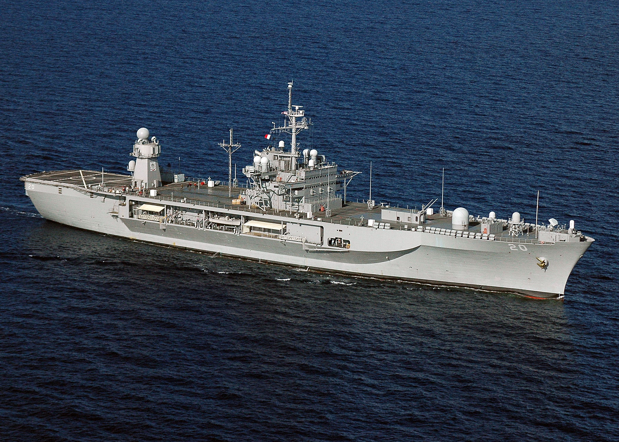 Mediterranean Sea (Oct. 6, 2005) – The Sixth Fleet flagship USS Mount Whitney (LCC 20) underway in the Mediterranean Sea during exercise Destined Glory (Loyal Midas) 2005. The exercise is a medium-scale NATO amphibious live exercise designed to certify selected NATO units and assigned forces. U.S. participation is to enhance the training for NATO partners, provide training for U.S. forces and to show U.S. commitment. U.S. Navy photo by Photographer’s Mate 1st Class Timm Duckworth (RELEASED)